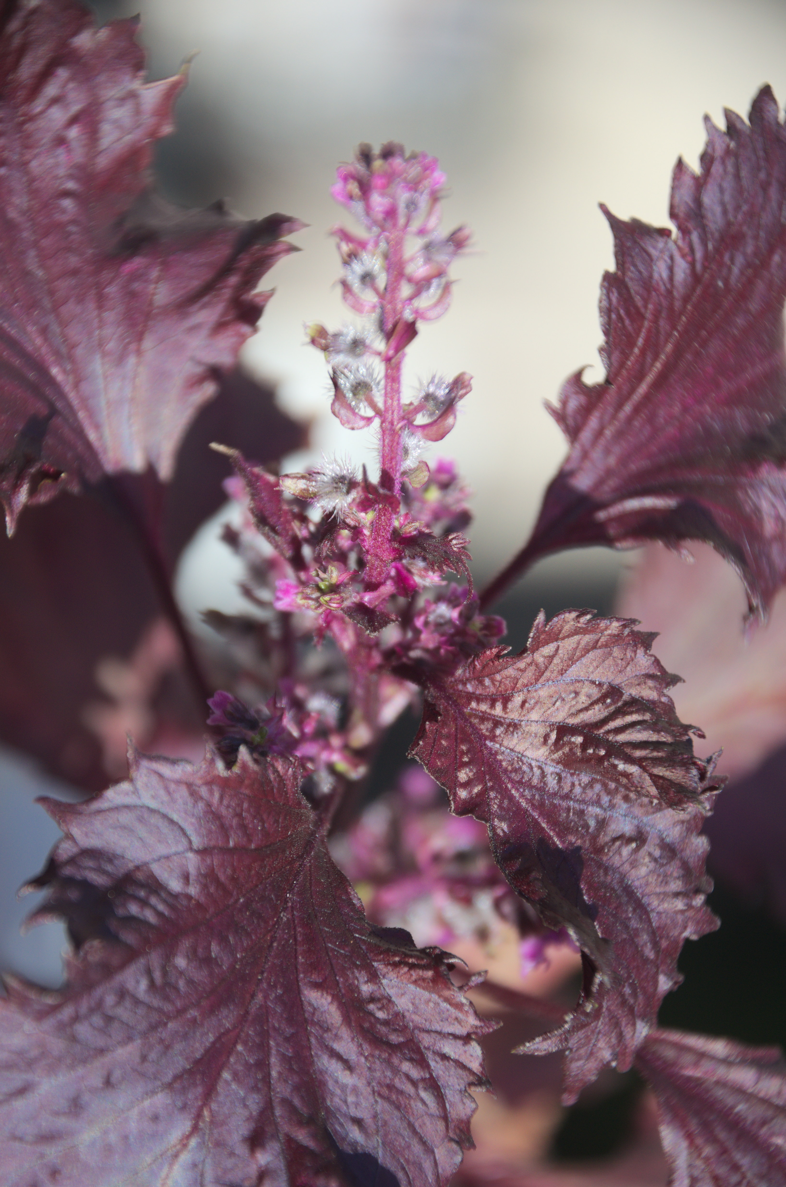 Perilla frutescens var. crispa fo. purpurea Makino or akajiso (赤紫蘇). This plant is originated from China, seeds come from Sendai, Japan, and are the second generation grown in Paris, France.